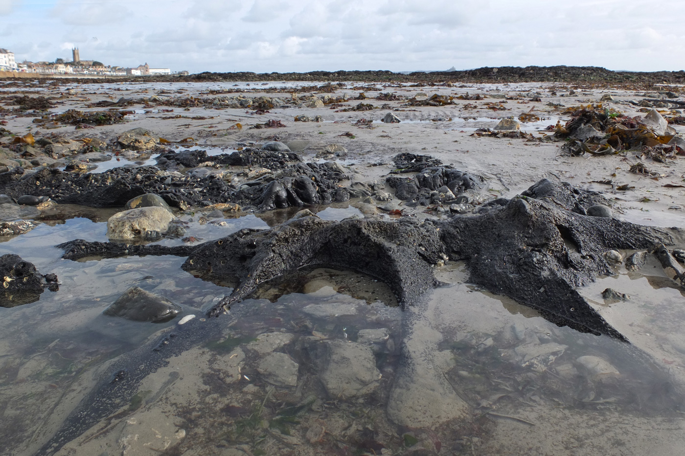 On the 0.6metre low-tide line about 100 metres from sea wall, Wherrytown, Penzance, Cornwall